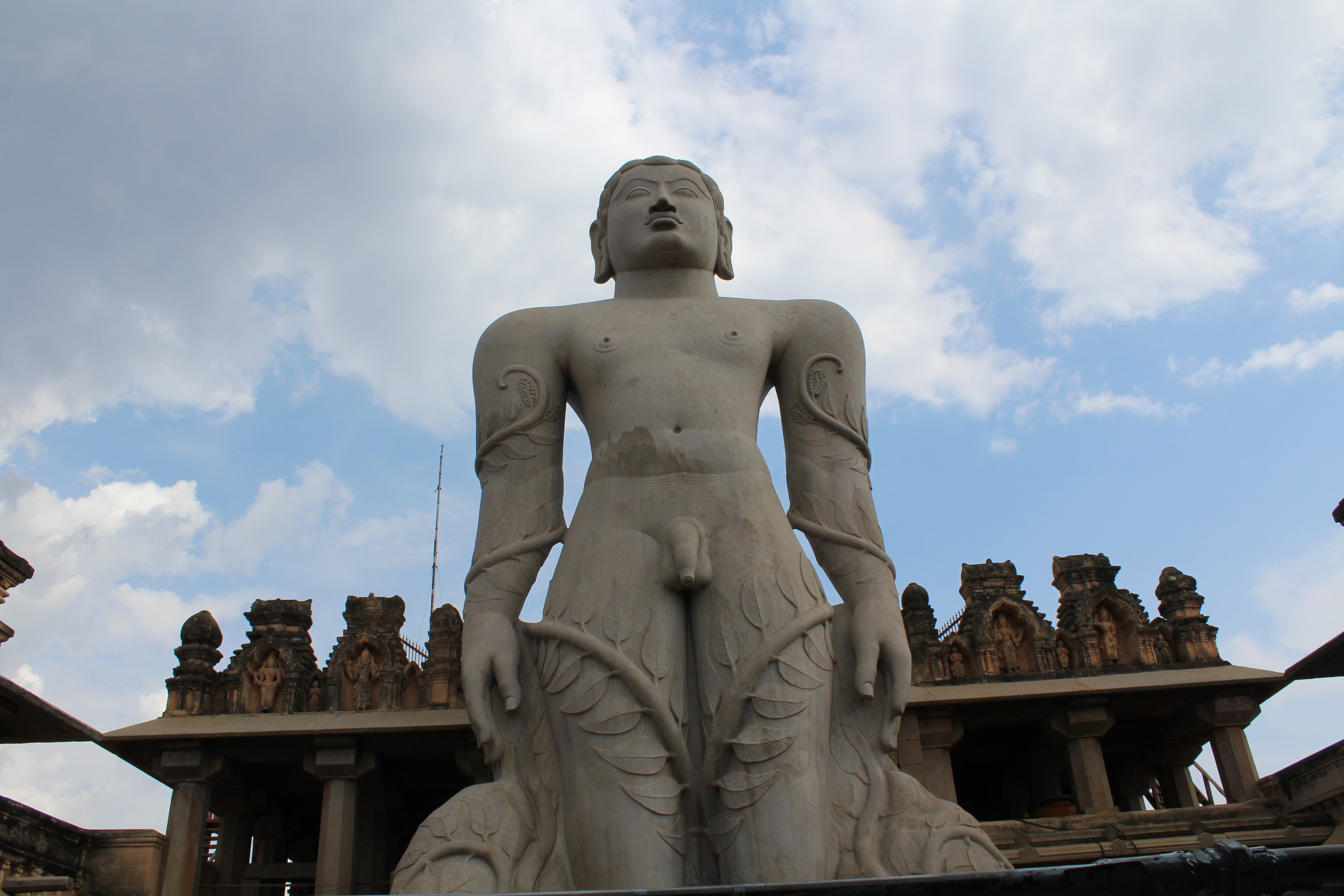 bahubali_sravanabelagola_heritageplace